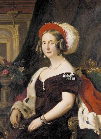 Princess Frederica Wilhelmina of Prussia (1796-1850), wife of Leopold IV, Duke of Anhalt or Frederica of Mecklenburg-Strelitz (1778-1841), Queen of Hanover